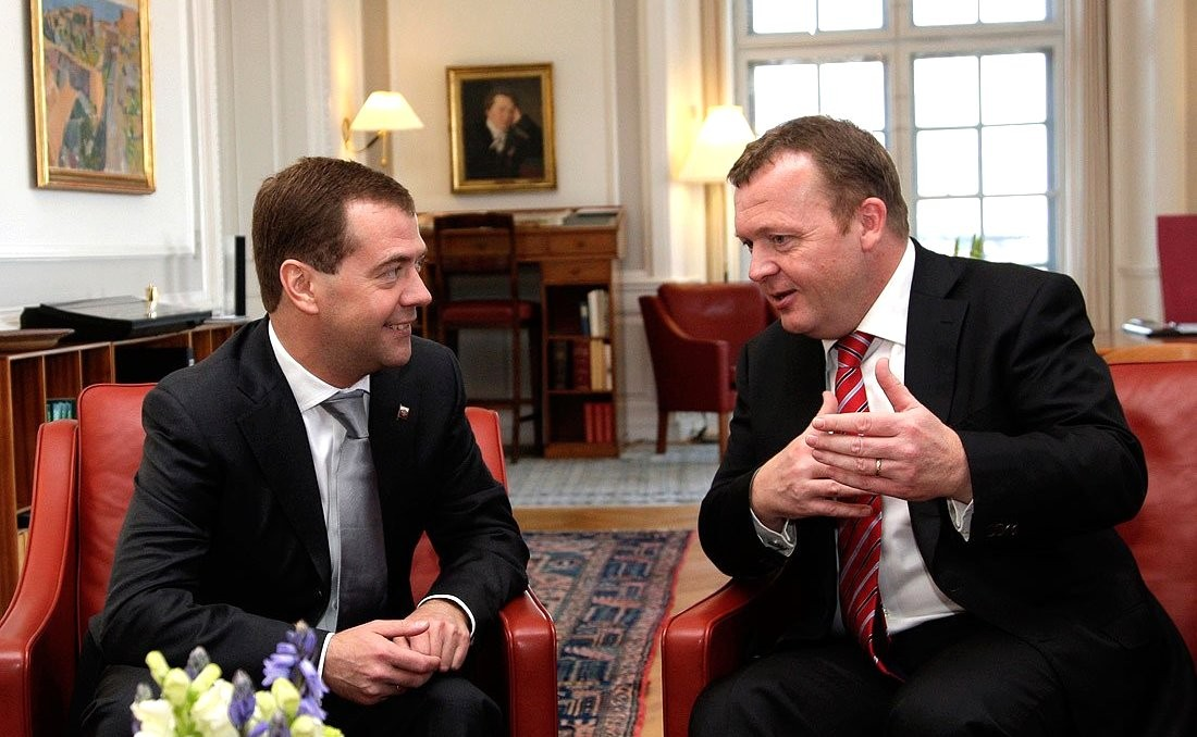 With Danish Prime Minister Lars Lokke Rasmussen.